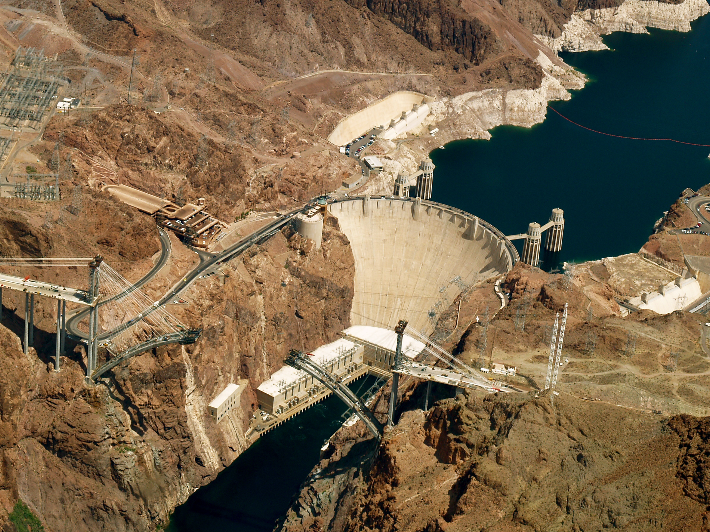 Hoover dam, from the air